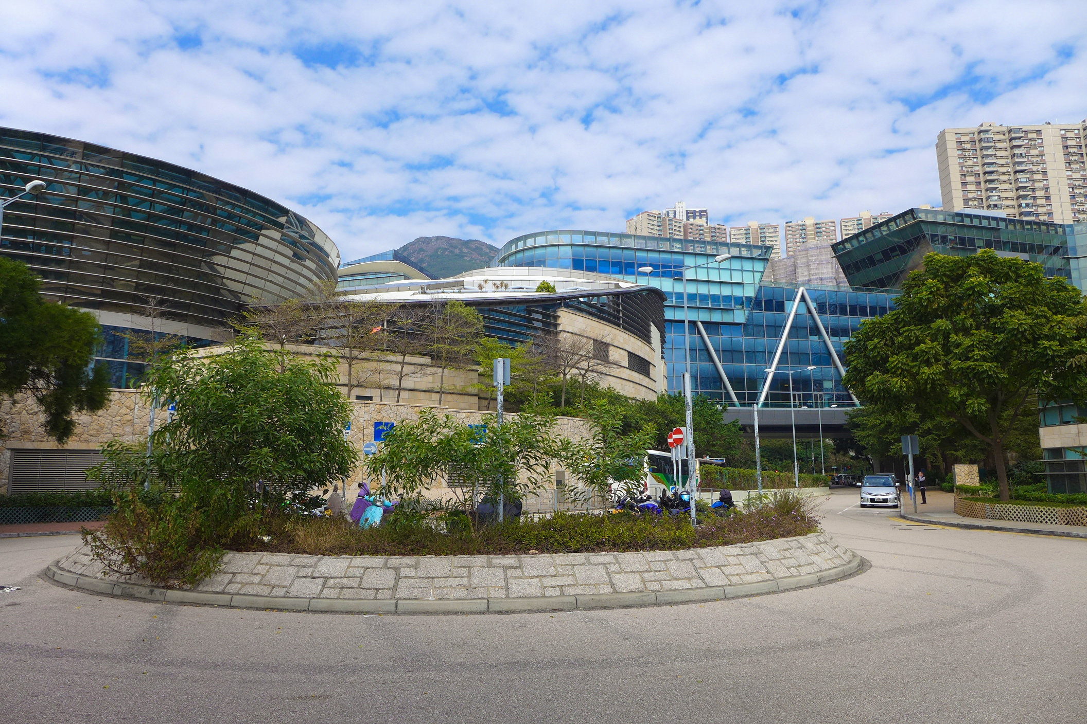 Information Crescent